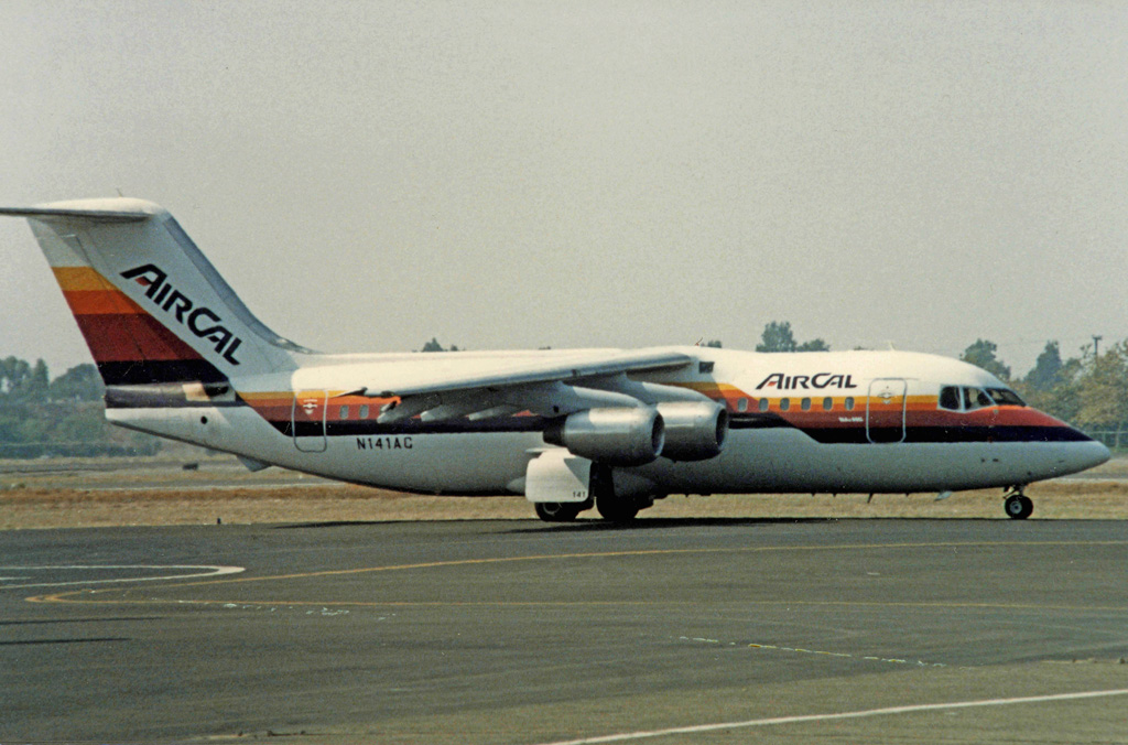 BAe 146 Series 200 N141AC of Air Cal at Orange County airport California in 1986